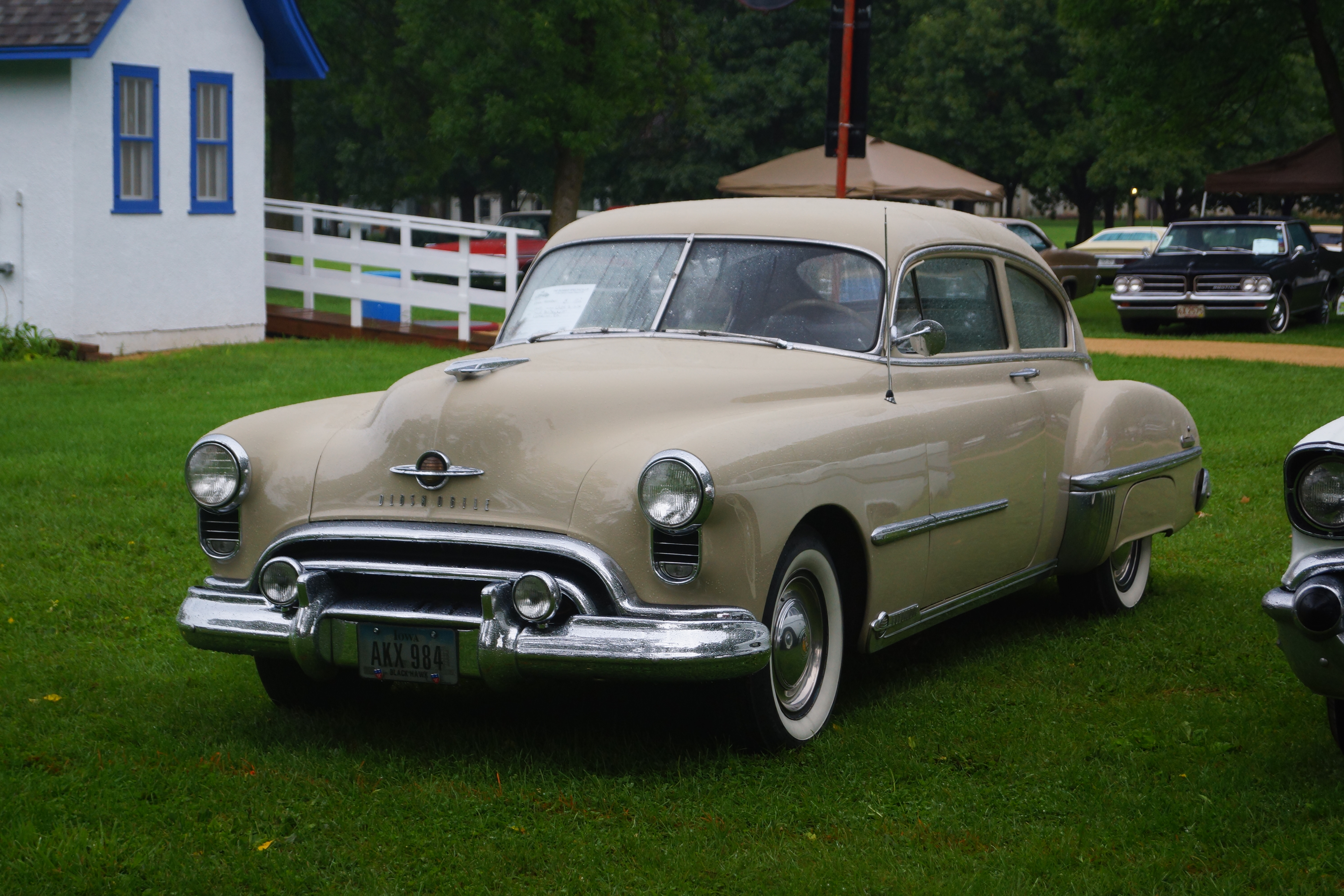 Southern Twin Cities Cruzers 29th Annual Summer Spectacular Car Show Dakota County Fairgrounds Farmington, Minnesota August 2017 ----- Click here for more car pictures at my Flickr site. Or here for my Car Crazy Tumblr site. Or on Twitter @DVS1mn.